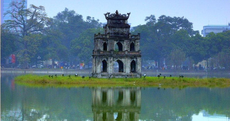 Turtle Tower.